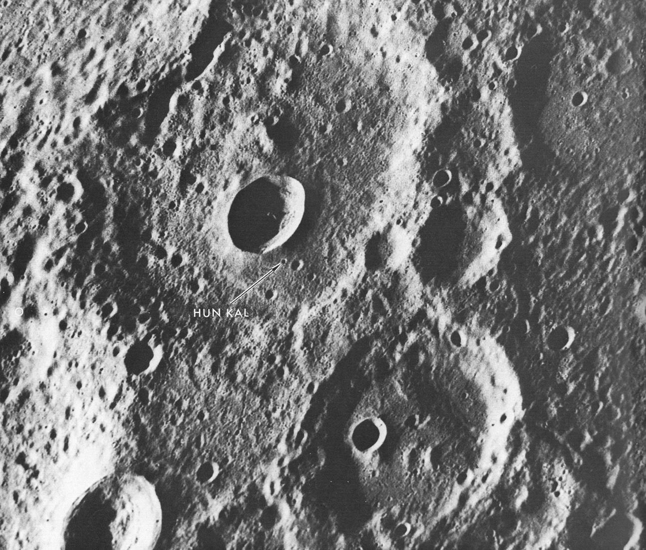 A fresh new crater in the center of an older crater basin provides a landmark for the tiny crater named Hun kal- the Mayan number 20 - which is the basis for positioning the longitudes on Mercury. By definition, the 20° meridian passes through the center of this small crater. Assuming that the spin axis of Mercury is perpendicular to its orbital plane, the latitude of Hun Kal is 0.23°S. This picture, which covers an area of 130 by 170 km ( 90 by 105 mi), was taken from a distance of about 20,700 km (12,860 mi), a half-hour before Mariner made its first close flyby of Mercury, March 1974.